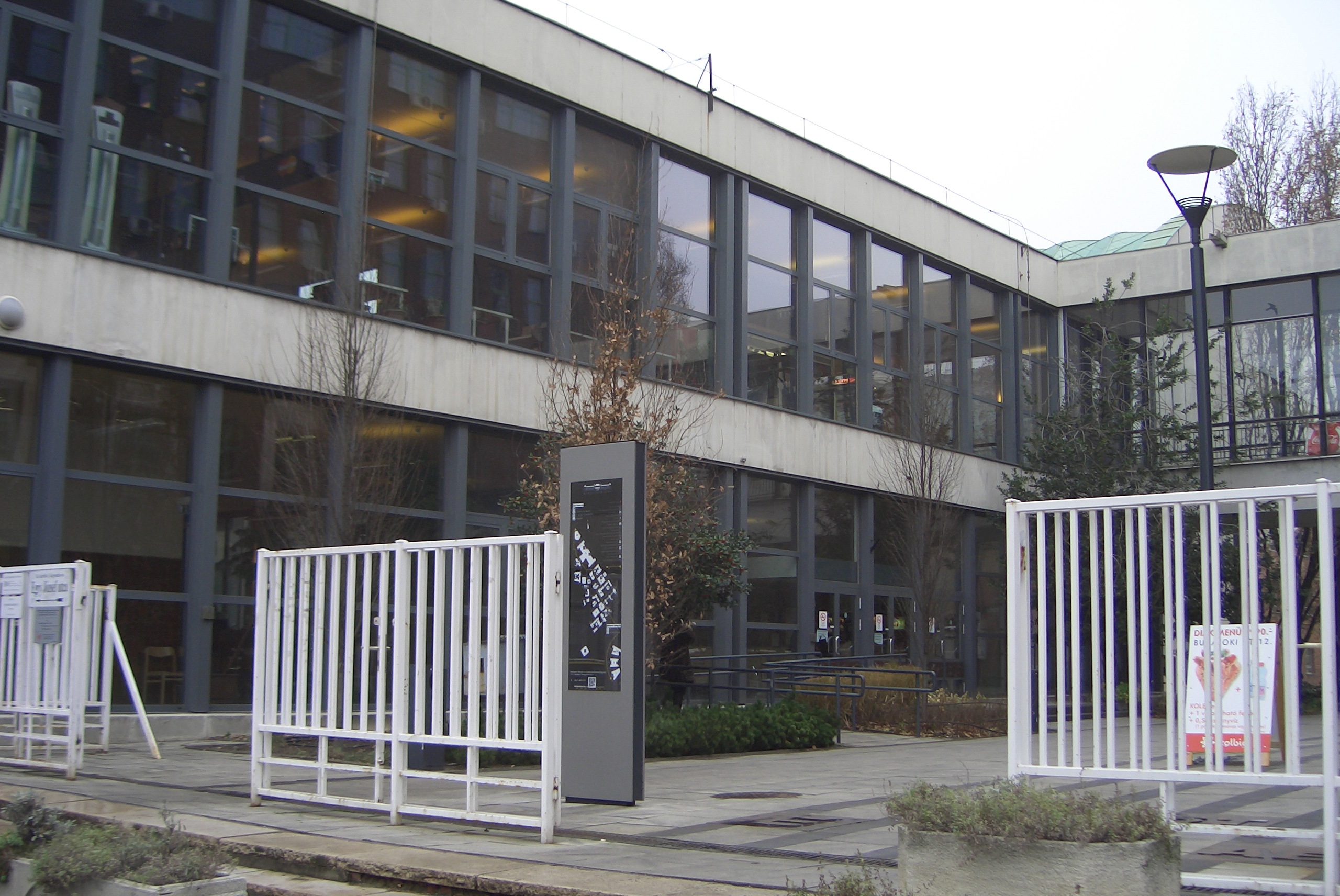 Budapest University of Technology and Economics, Building E, entrance, Budapest, district 11, Egry József utca. Here was the former E-Club.